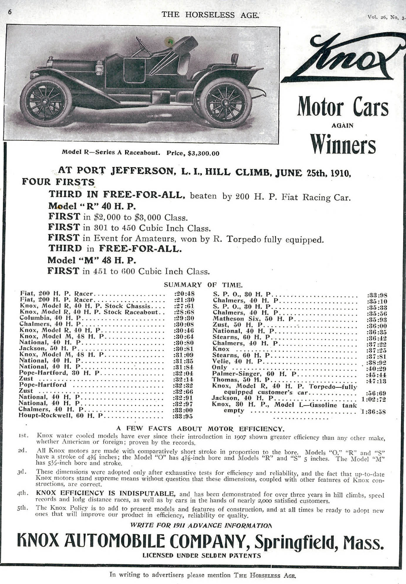 1910 Advertisement for the Knox 40 HP automobile, referring to results at the Port Jefferson NY Hill Climb held June 25th, 1910 (2000 feet) on Long Island. The ad lists results by the following makes: Chalmers, Columbia, Fiat (G.P.), Houpt-Rockwell, Jackson, Knox, Matheson, National, Only, Palmer-Singer, Pope-Hartford, S.P.O., Stearns, Thomas, Velie, Zust